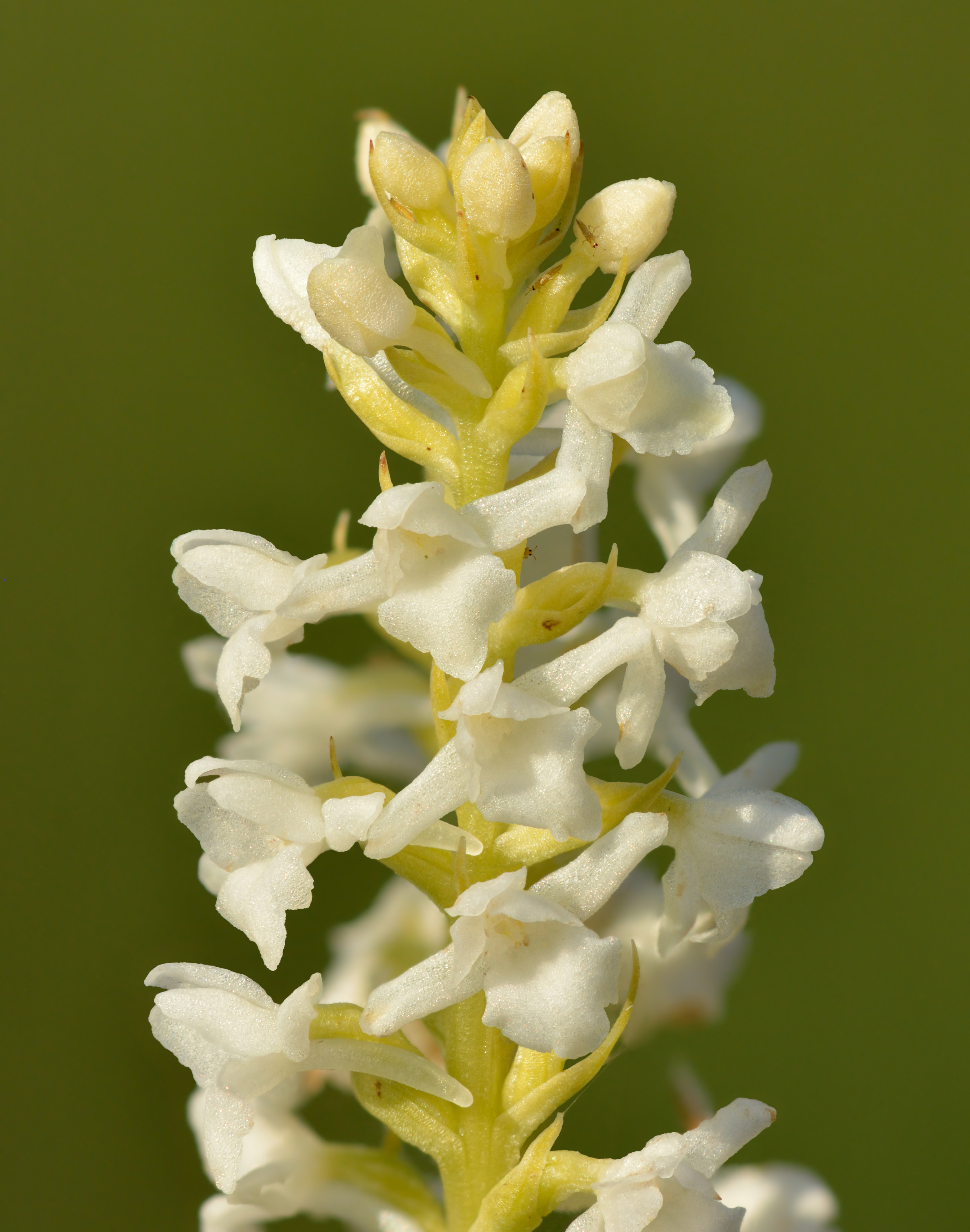 White-flowered short spurred fragrant orchid (flower size ca 5–6 mm)